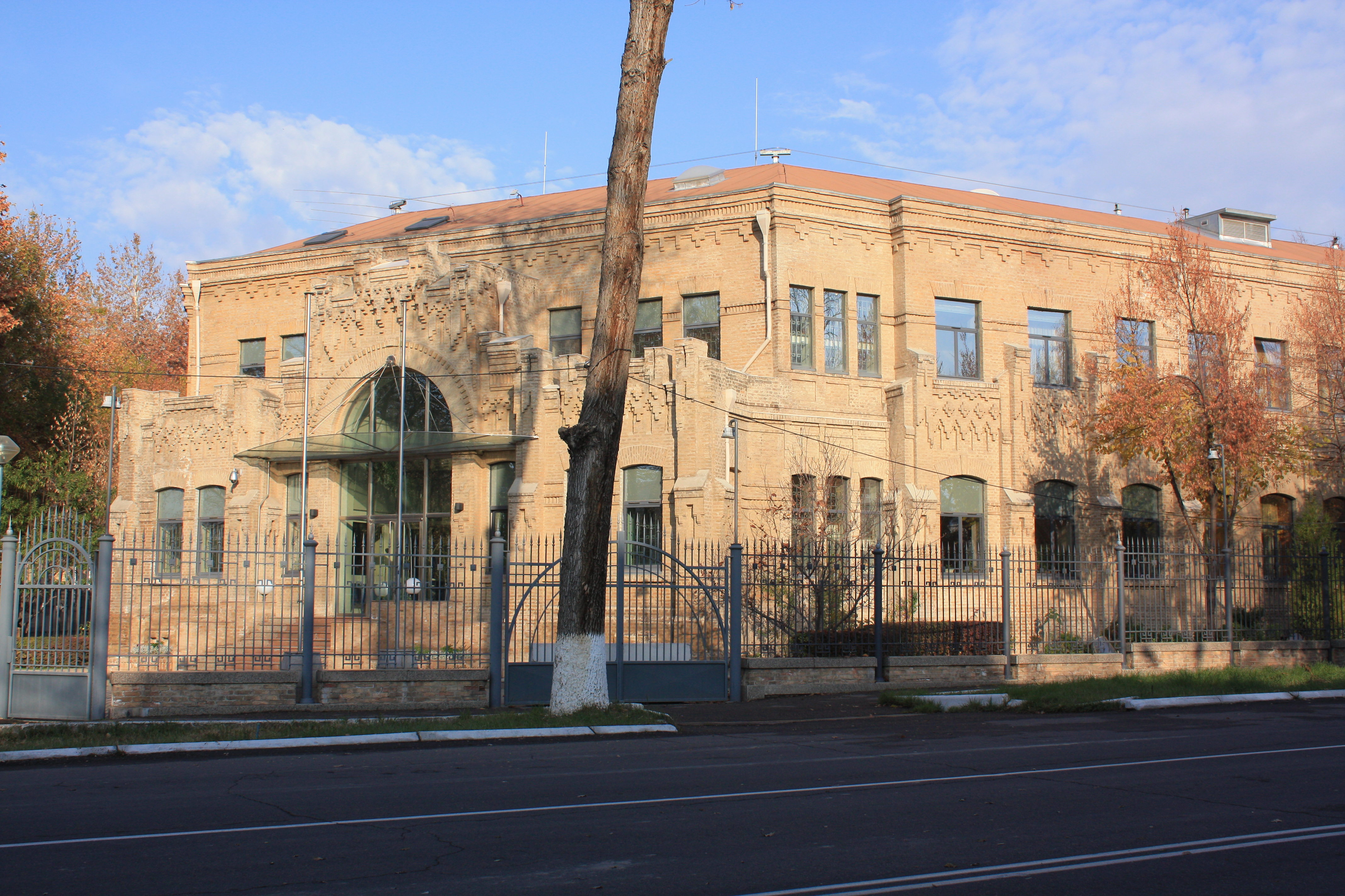 French embassy in Tashkent, Uzbekistan.